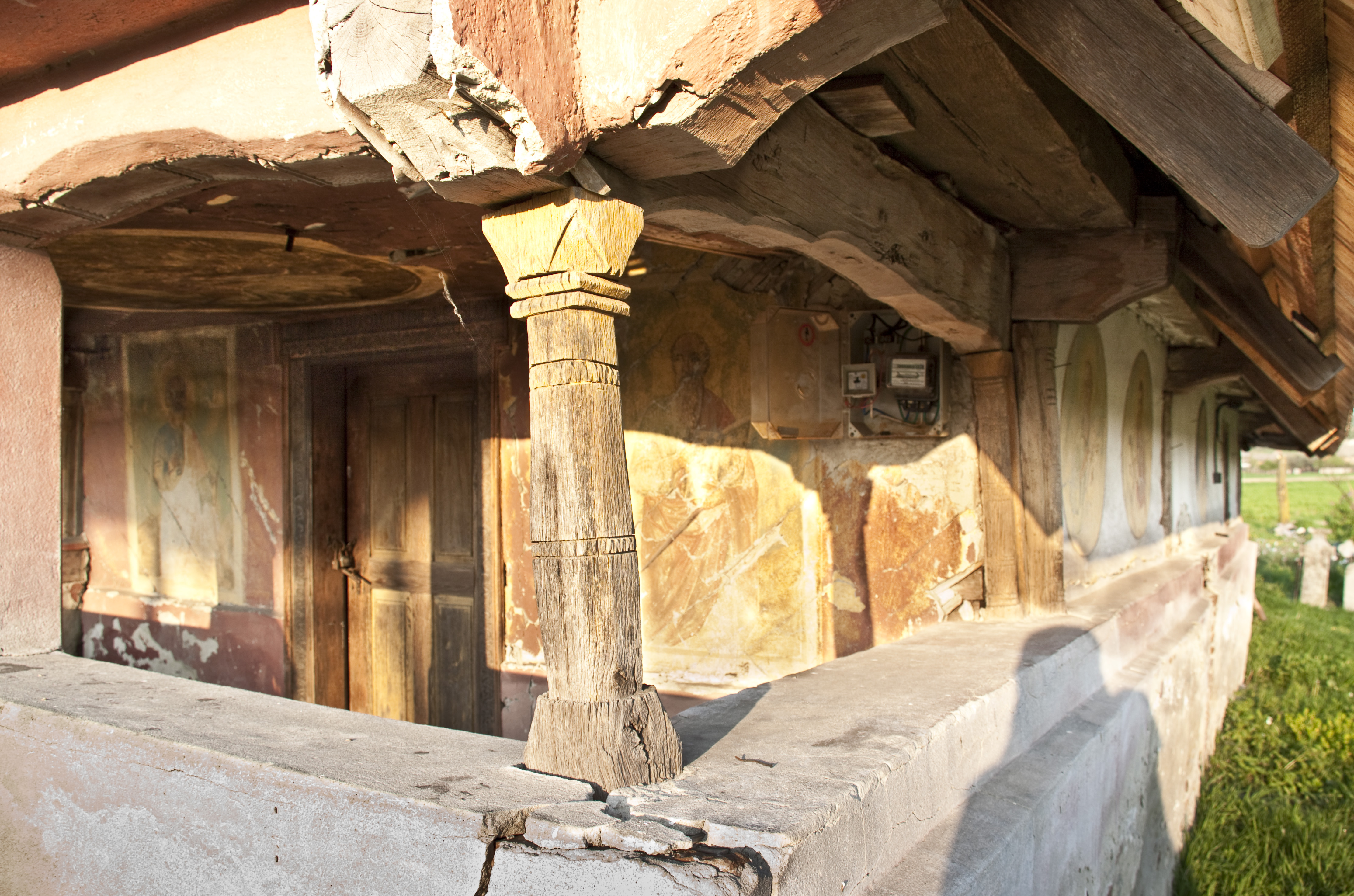 Târgu Gânguleşti, Vâlcea county, Romania: the wooden church.